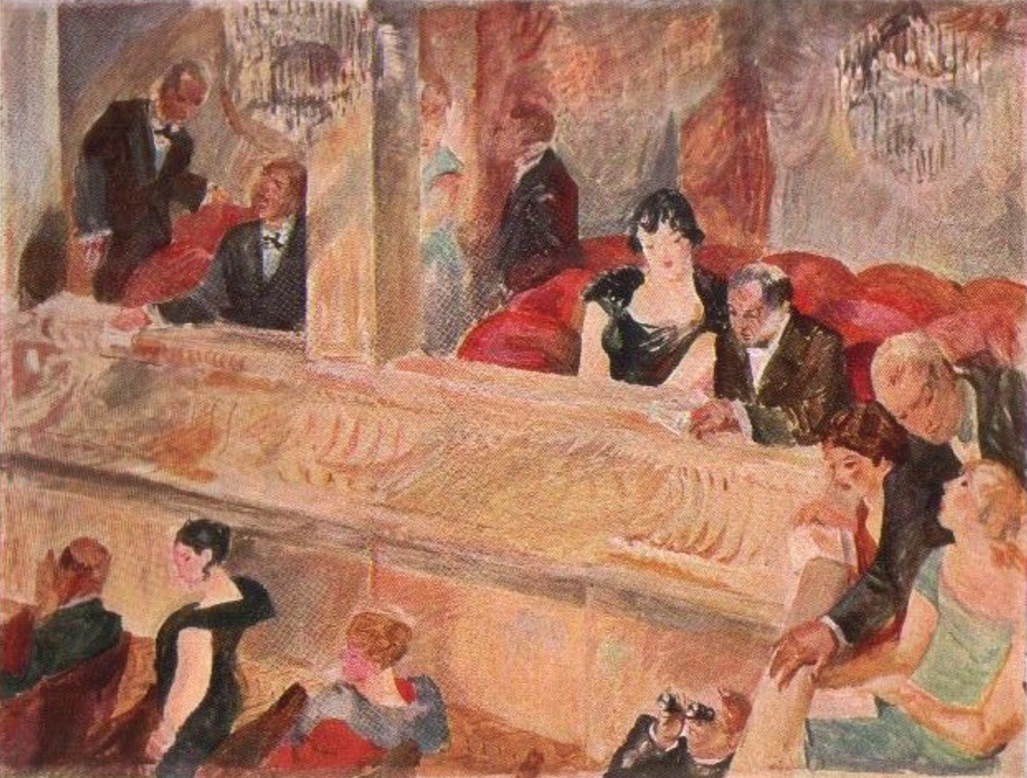 Im Konzertsaal, scanned from a 1931 magazine